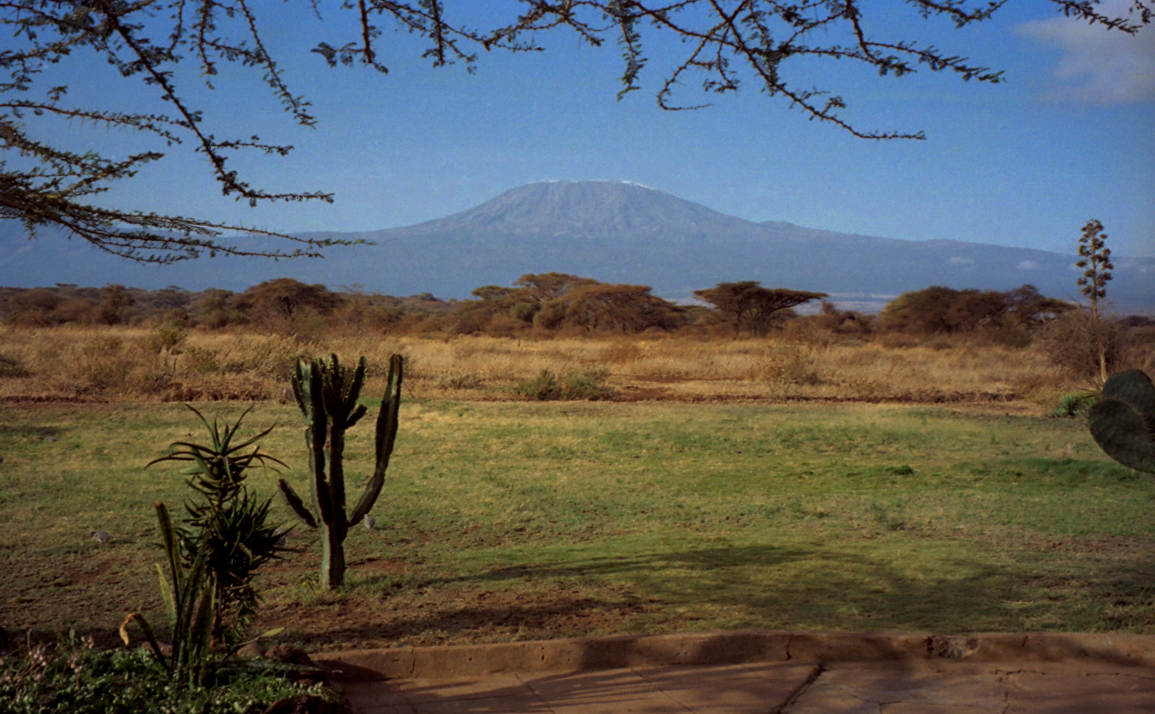 Mount Kilimanjaro (just barely in Tanzania) from the rear patio of Kilimanjaro Buffalo Lodge in Amboseli National Park near the southern border of Kenya.